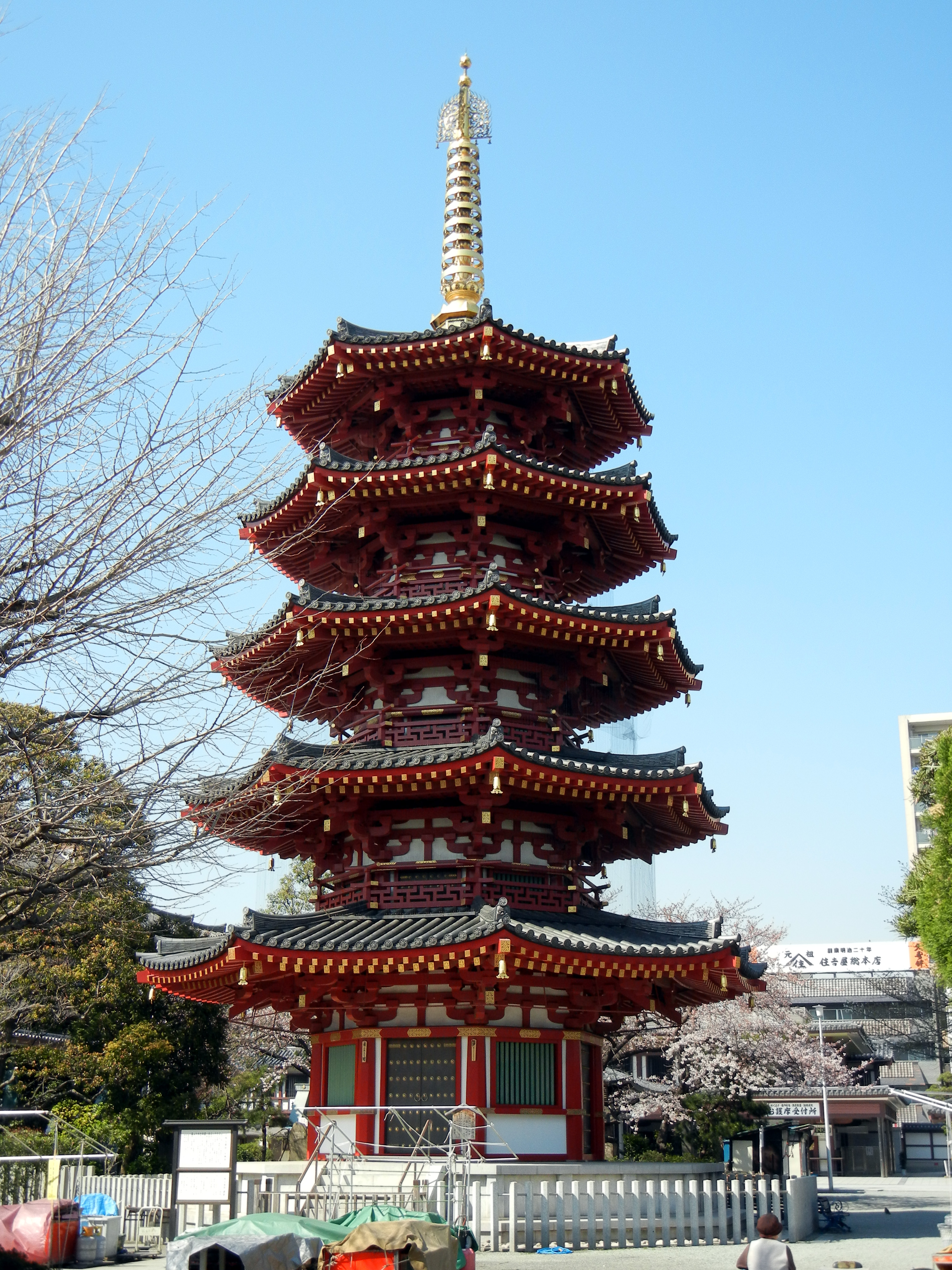 Octagonal Five-Storied Pagoda (Restoration Pagoda) at Heiken-ji (Kawasaki Daishi) temple.